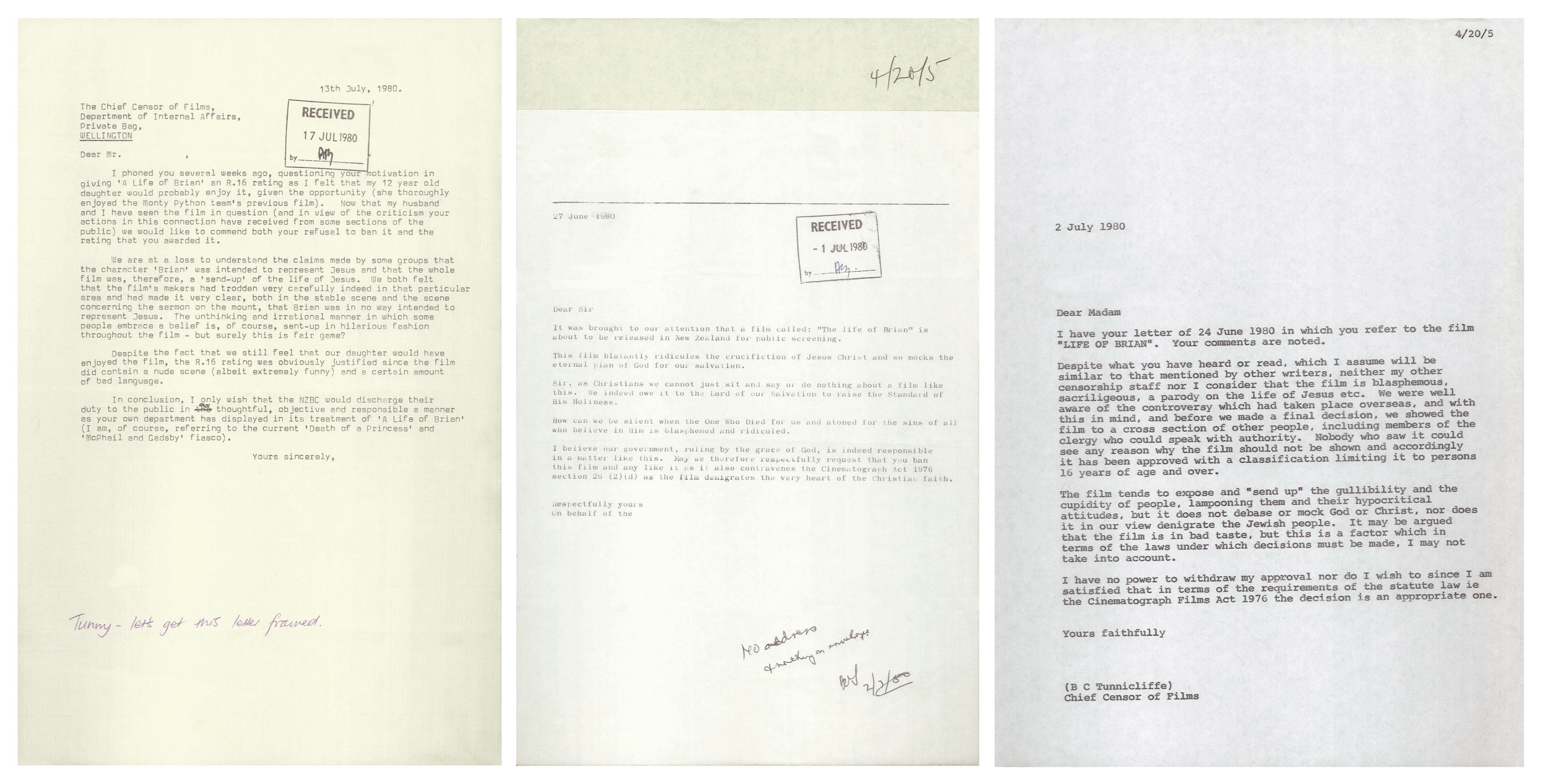 On 5th October 1969 the first episode of comedy series ‘Monty Python’s Flying Circus’ was broadcast on BBC One. The iconic series ran for four seasons, after which the Monty Python team concentrated on film-making. In 1979 the group released what is thought to be their greatest film, ‘The Life of Brian’, a comedic biography of a Jewish man living at the same time and neighbourhood as Jesus Christ. The film contained themes of religious satire that were controversial at the time of its release, drawing accusations of blasphemy and protests from some religious groups. Some countries, including Ireland and Norway, banned its showing, with a few of these bans lasting decades. There was also significant opposition to the film being released in New Zealand, with hundreds of letters of protest sent to the Film Censor’s Office requesting it to be banned on grounds of religious insensitivity. Pictured above are two letters sent to the Film Censor’s Office giving opposing views of the argument, and the reply given by the Chief Censor of Films stating that they had found no evidence of blasphemy or sacrilegiousness in the film. These documents come from a series of multiple number subject files from the Film Censor's Office and a Department of Internal Affairs report on motion picture policies/legislation, 1927-1991. Archives reference: AAAC W4442 10 /3/12/3/1 Material from Archives New Zealand